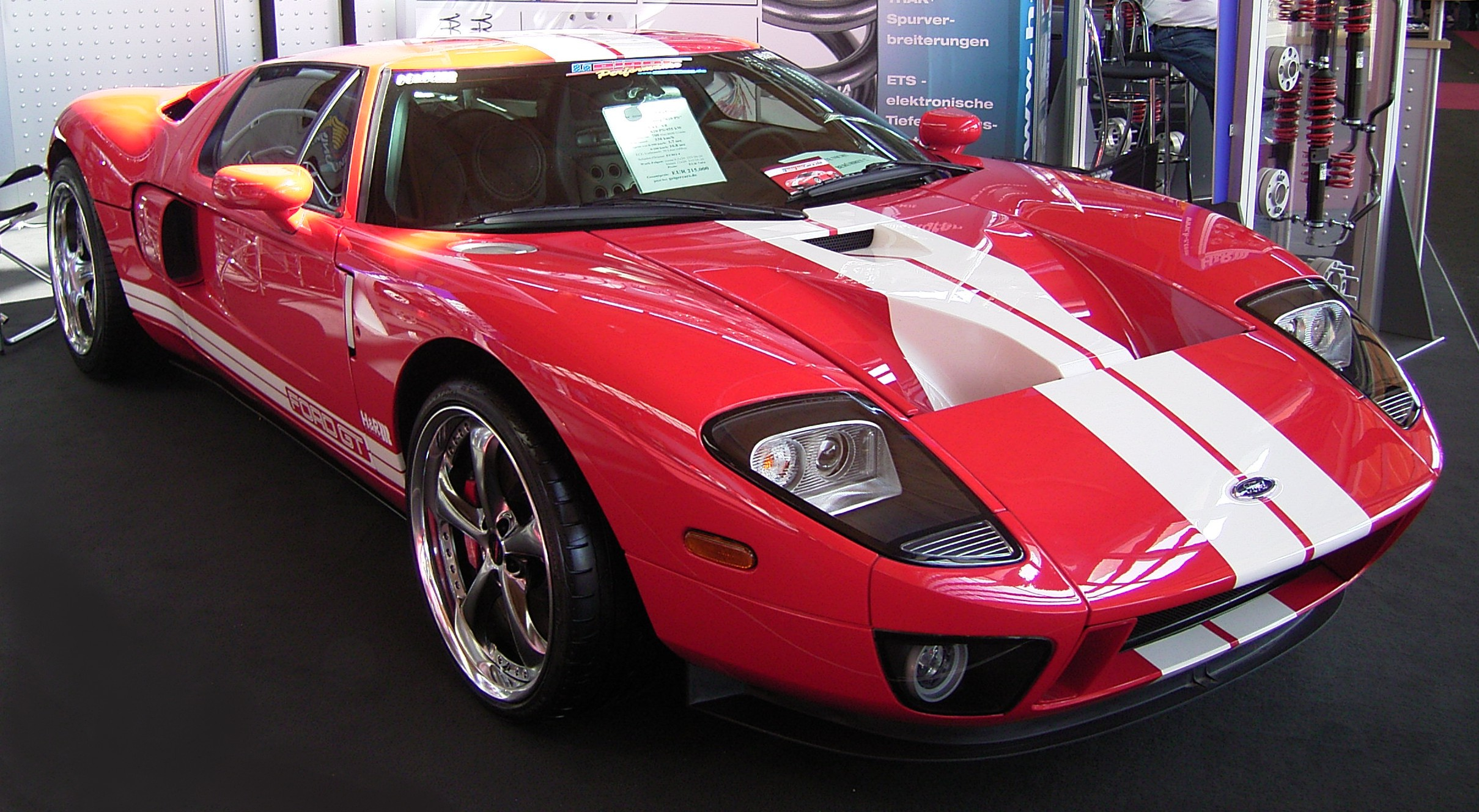 Ford GT